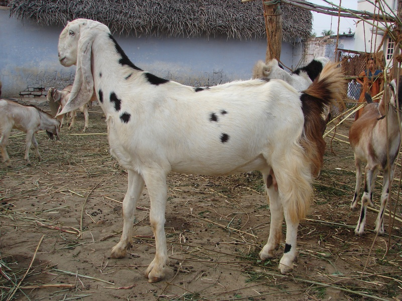 Sojat Does